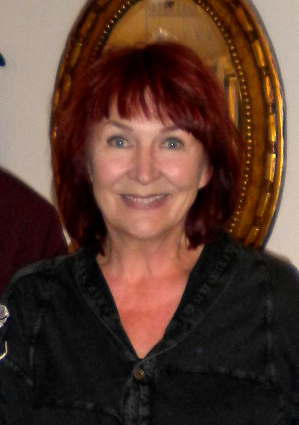 Swedish actress-comedienne Kim Anderzon, as released by image creator CabarEngPlace: Christinas Bod, Storkyrkobrinken, Stockholm, Sweden